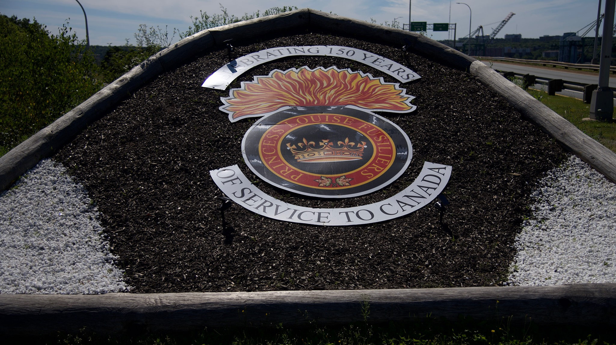 A display of the hat badge of the Princess Lousie Fusiliers installed at the Halifax approach of the A. Murray McKay Bridge to celebrate the regiment's 150th year of service to the country.